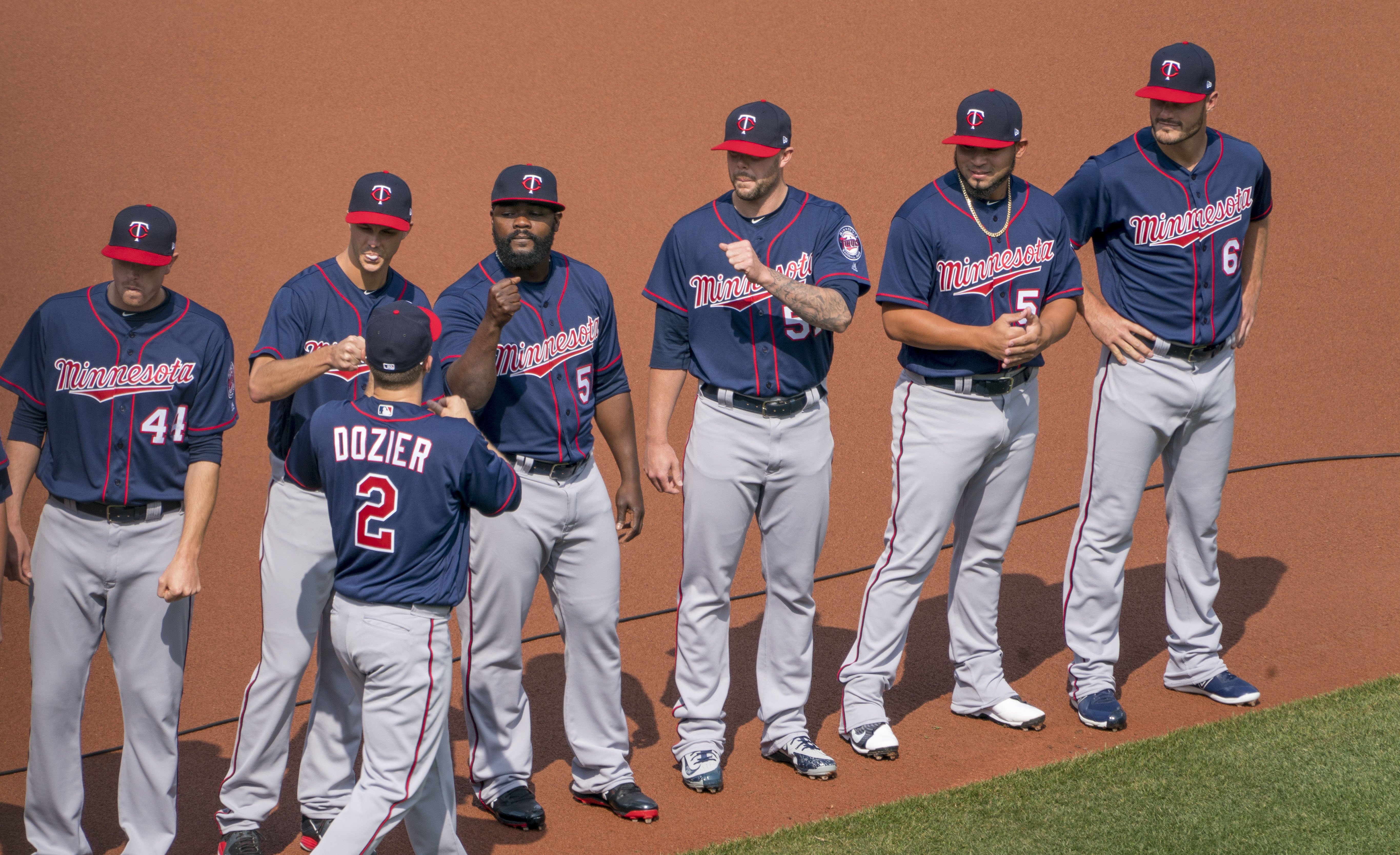 Twins at Orioles 3/29/18